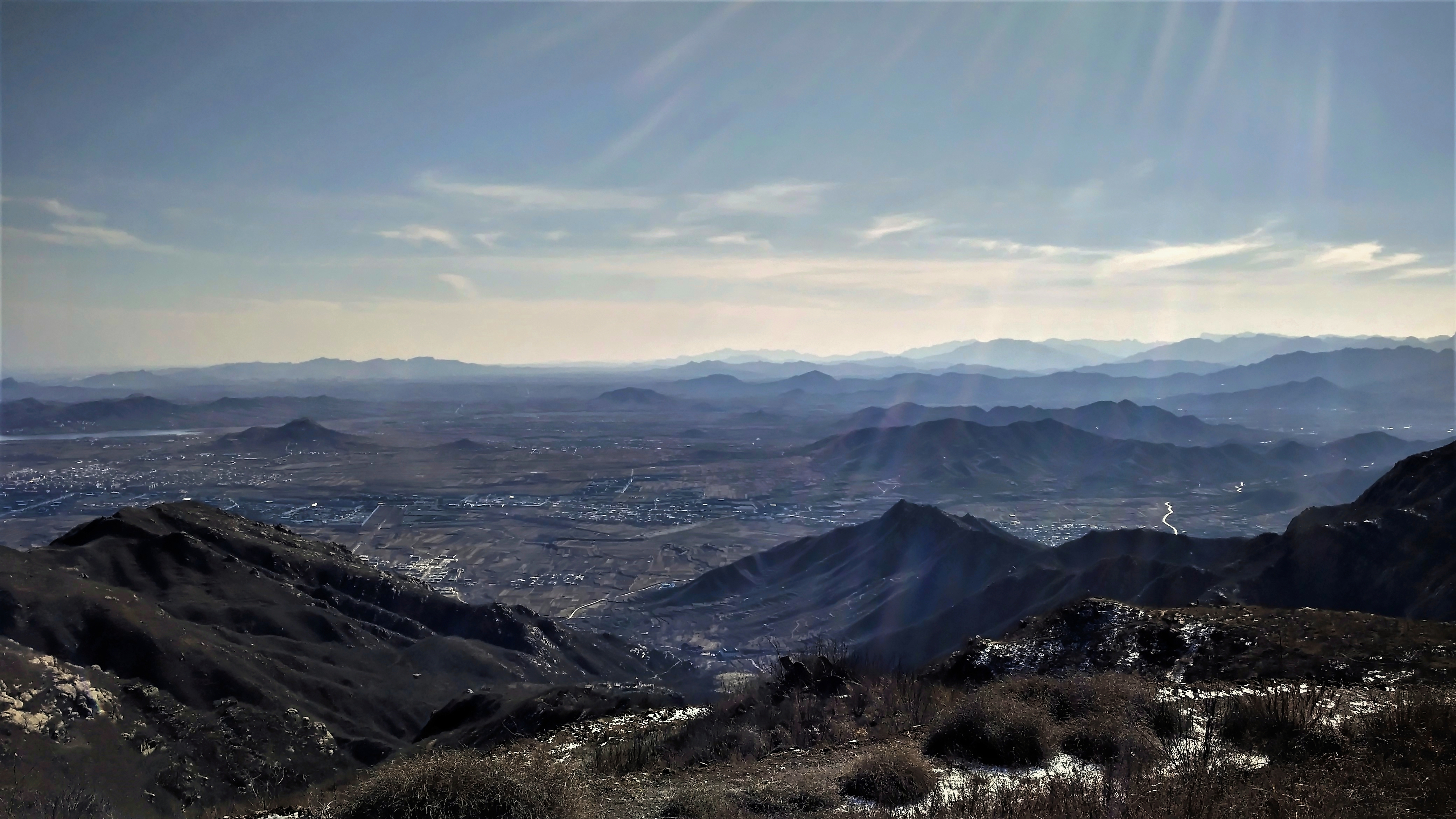 fenglongshan